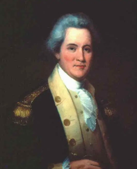 American frontiersman John Sevier (1745–1815)